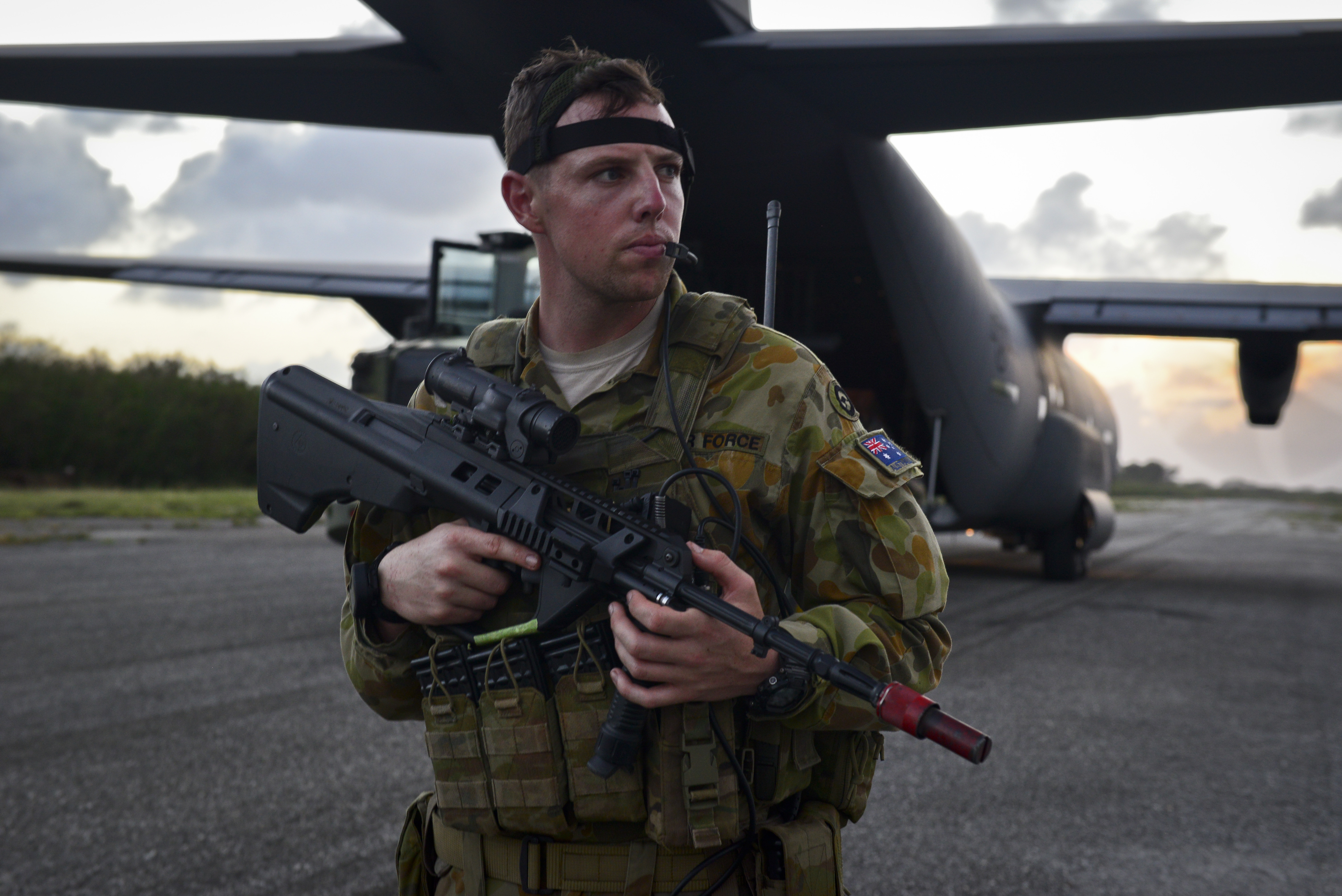 A Royal Australian Air Force security forces member protects an C-130J Super Hercules during a training scenario at exercise COPE NORTH 18 on Tinian, U.S. Commonwealth of the Northern Marianas Islands, Feb. 20. COPE NORTH enables U.S. and allied forces to train humanitarian assistance/disaster relief operations from austere operating bases, enhancing our capacity and capability to respond in times of crisis. (U.S. Air Force photo by Airman 1st Class Christopher Quail)